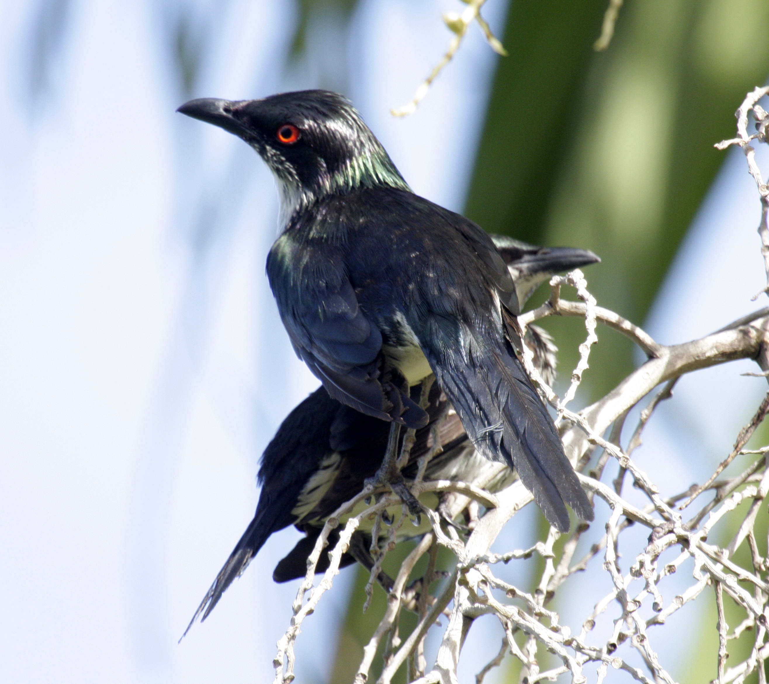 Juvenile Metallic Starlings (Aplonis metallica) Cairns Esplanade, N Queenslade, Australia